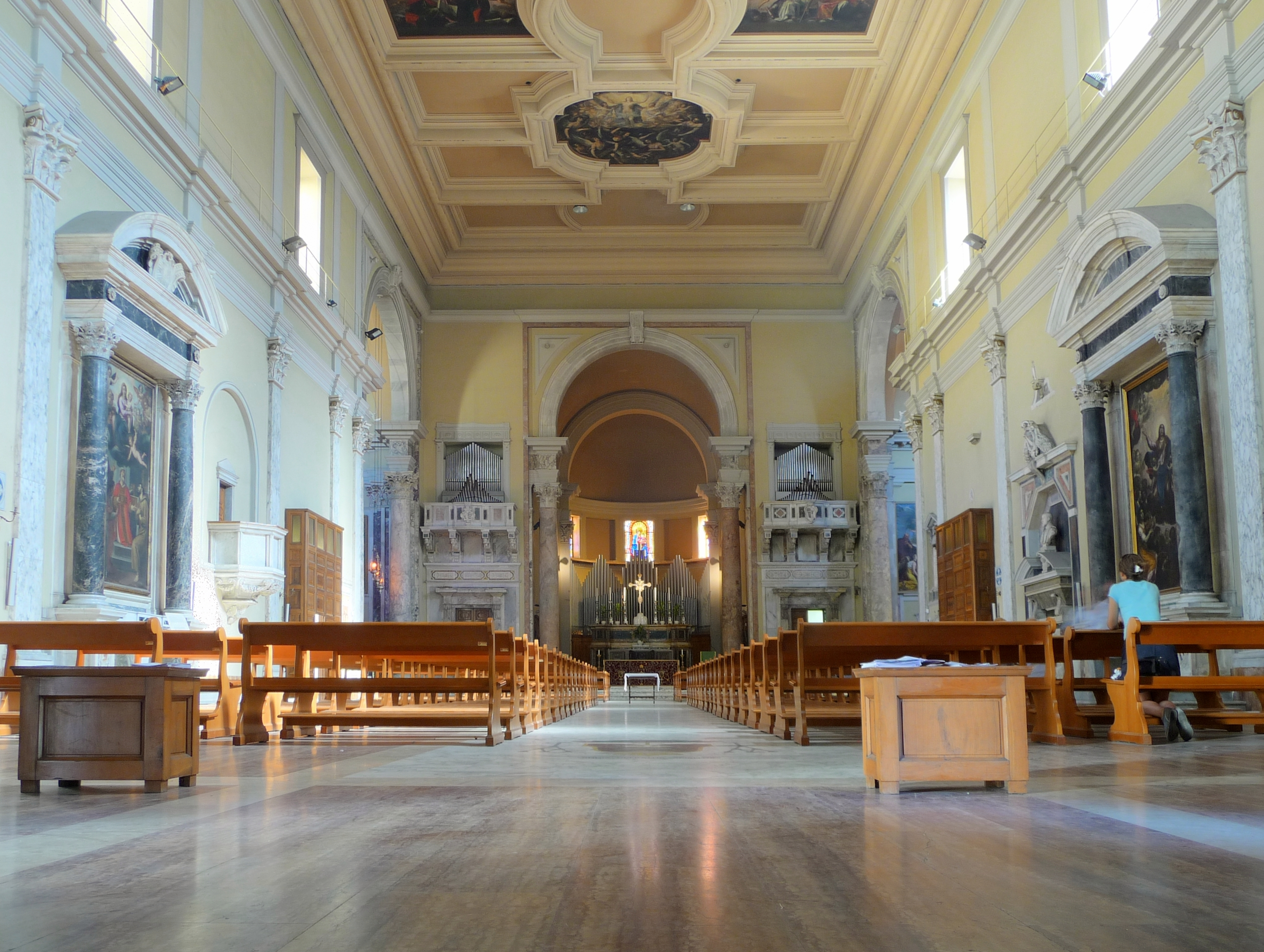 Duomo di Livorno, Livorno, Italy